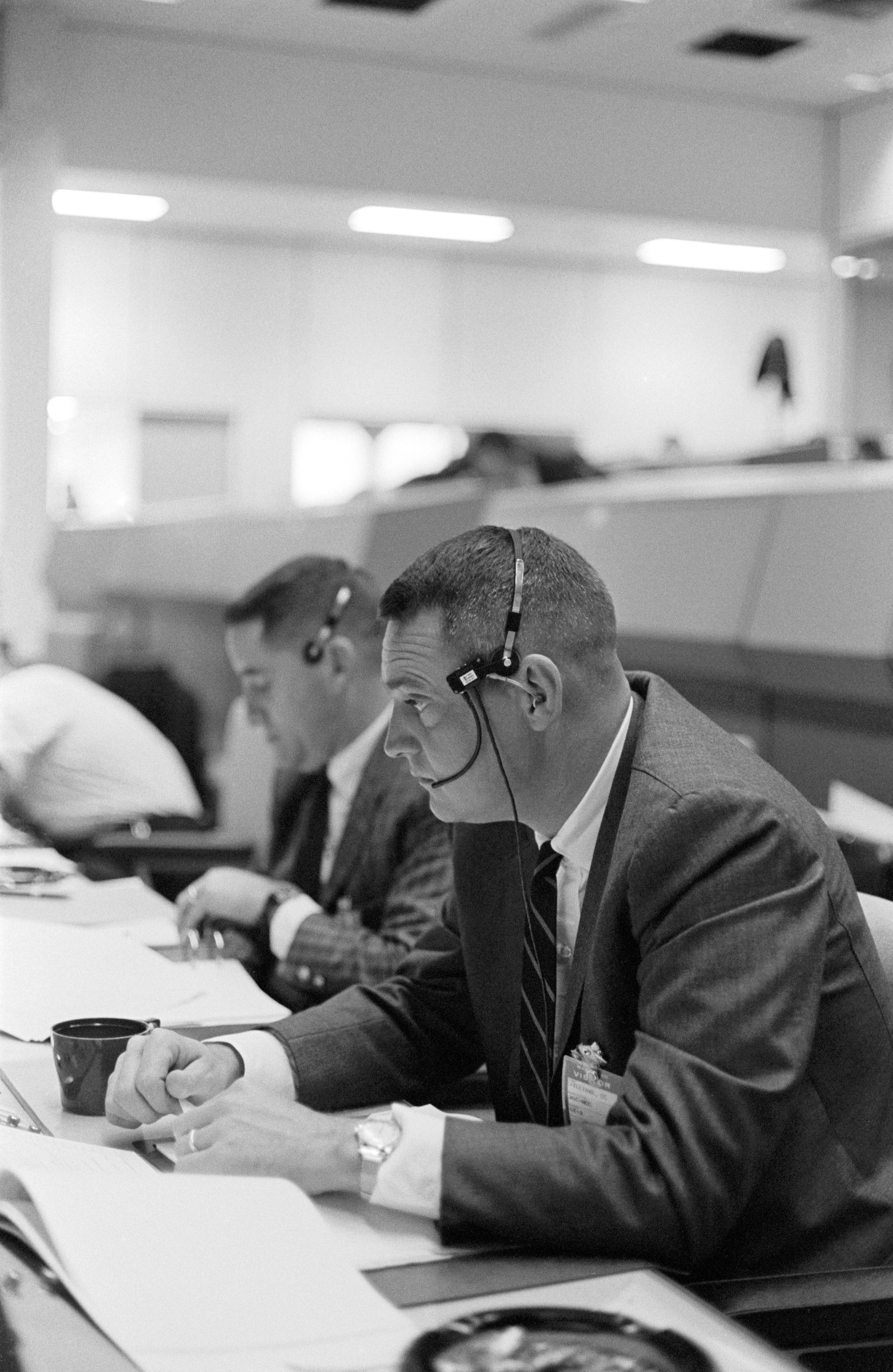 Astronaut Clifton C. Williams is shown at console in the Mission Control Center (MCC) in Houston, Texas during the Gemini-Titan 3 flight. The GT-3 flight was monitored by the MCC in Houston, but was controlled by the MCC at Cape Kennedy.